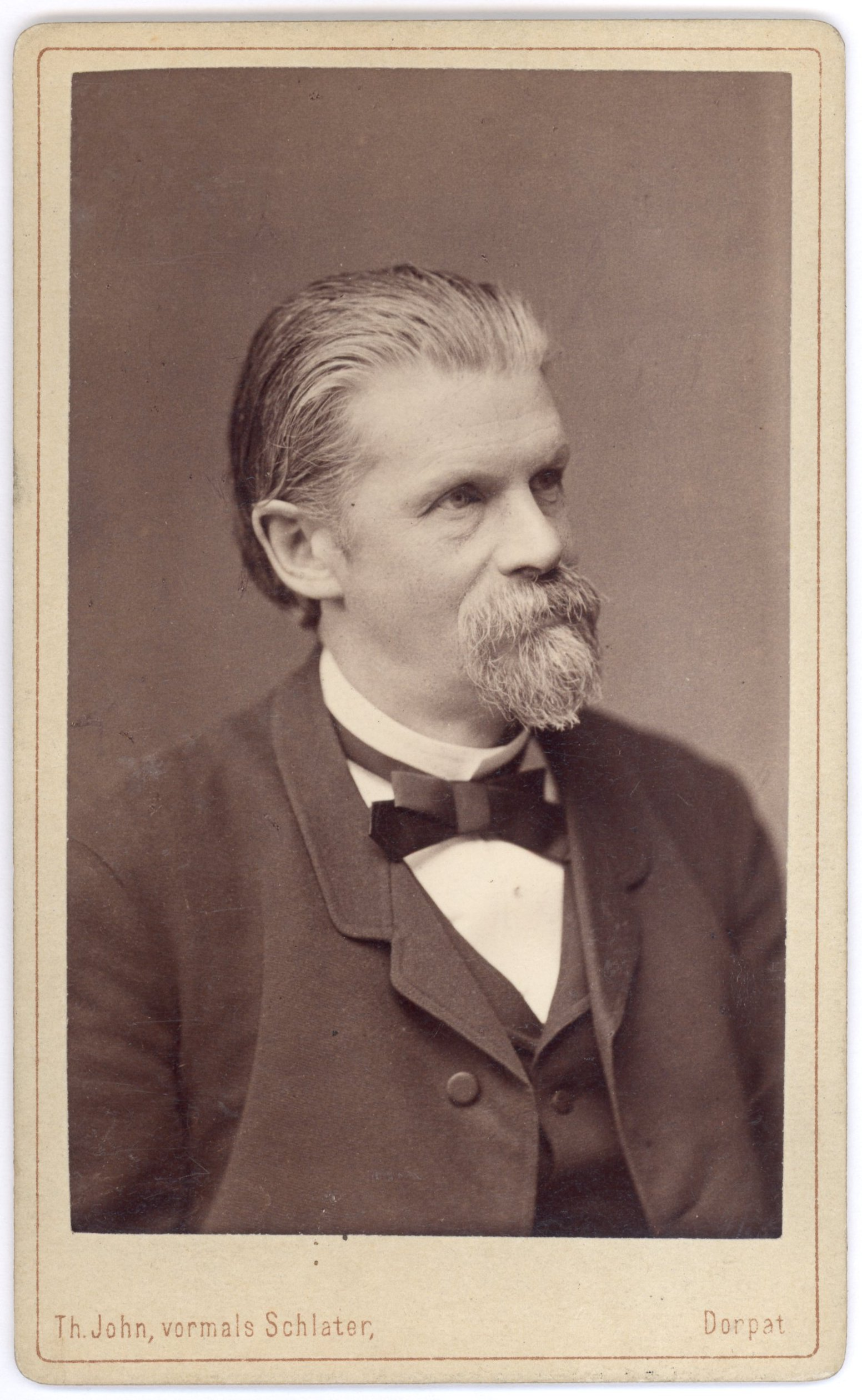 Johann Georg Noel DragendorffEesti: Johann Georg Noel Dragendorff - farmatseut, Tartu ülikooli farmaatsiaprofessor 1864-1894